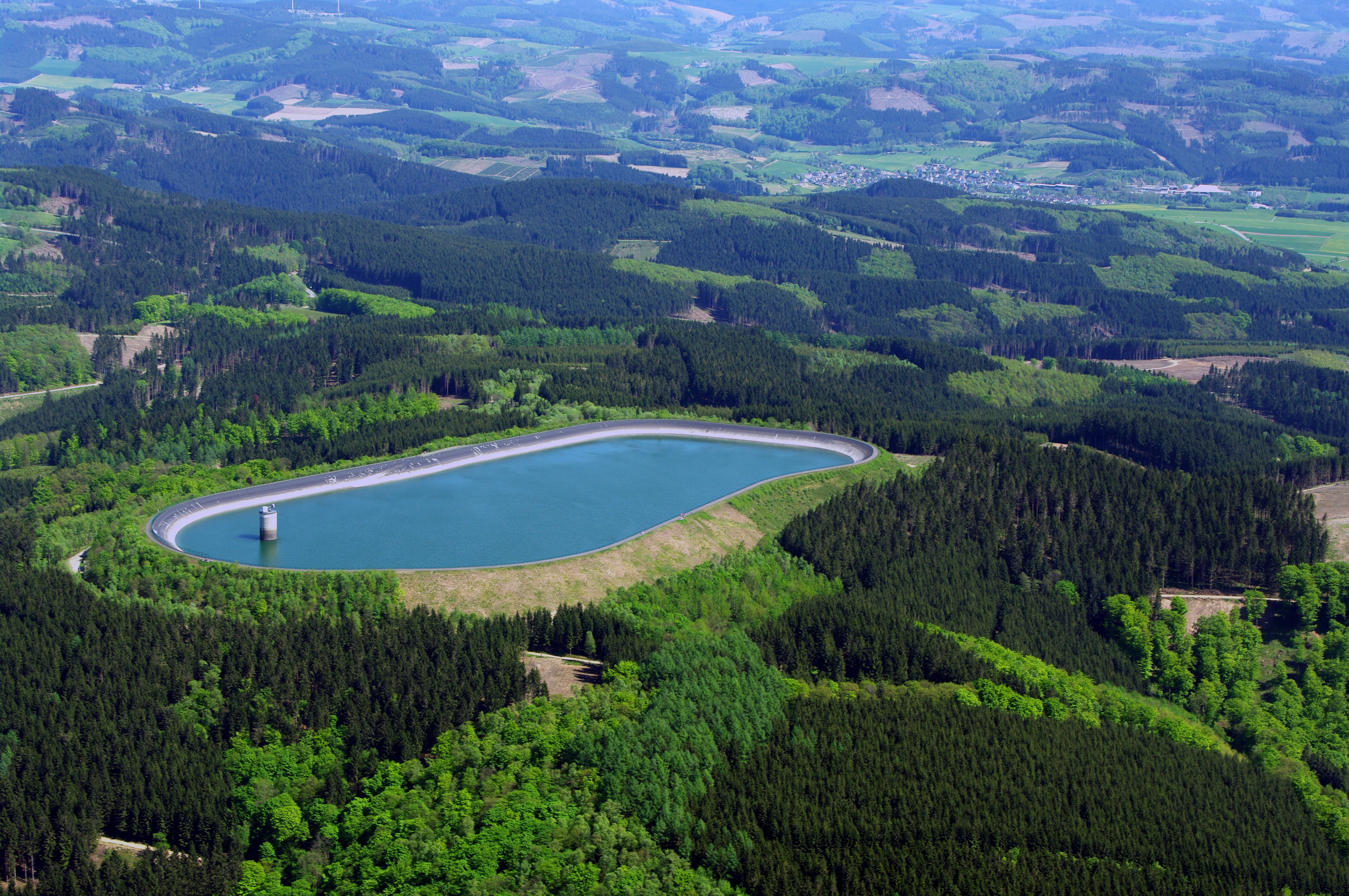 pumped-storage power station, Rönkhausen, Germany